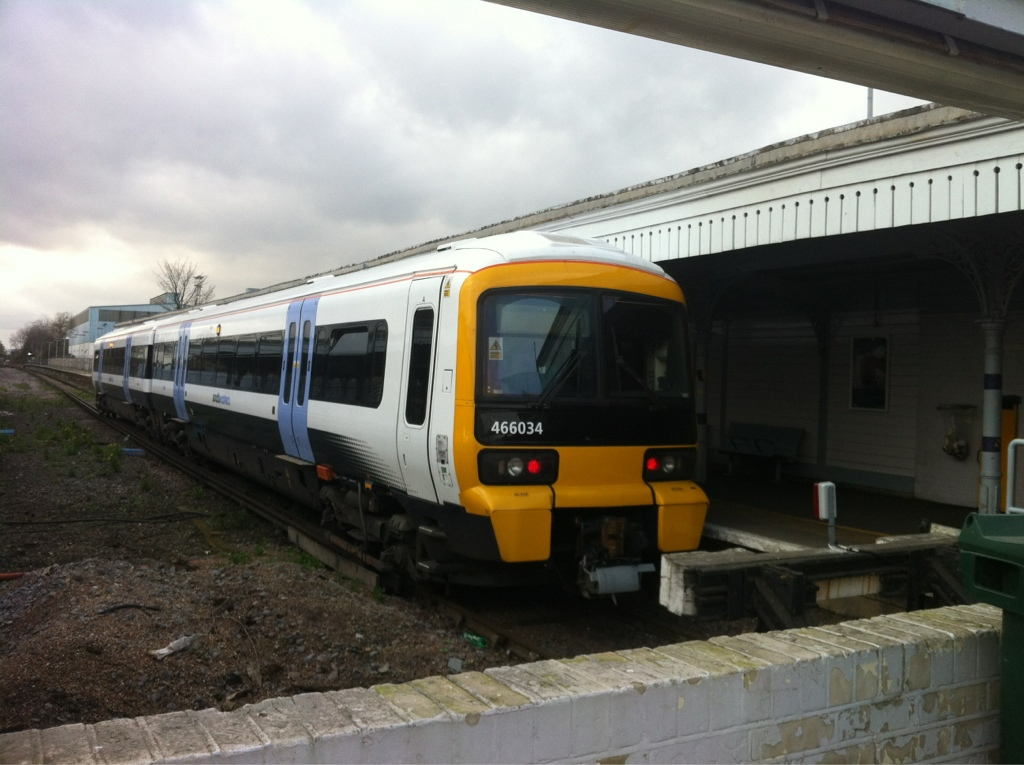 Fully reliveried into the new Southeastern livery Class 466034 seen at Sheerness on Sea.